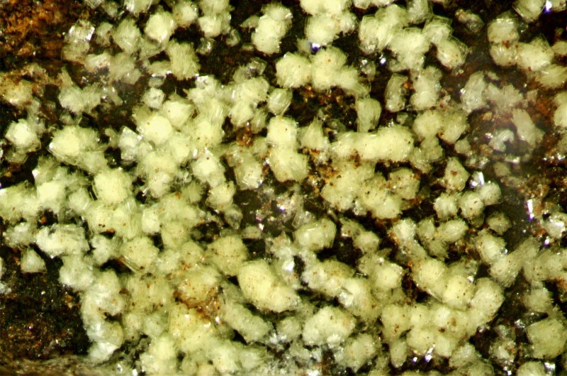 Sabugalite from El Lobo Mine, Don Benito, Badajoz, Extremadura, Spain